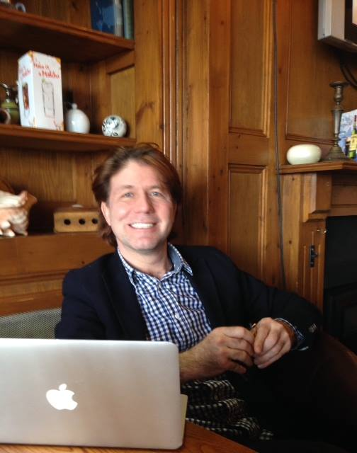 A picture of Dr. Omad Imady - July 2013